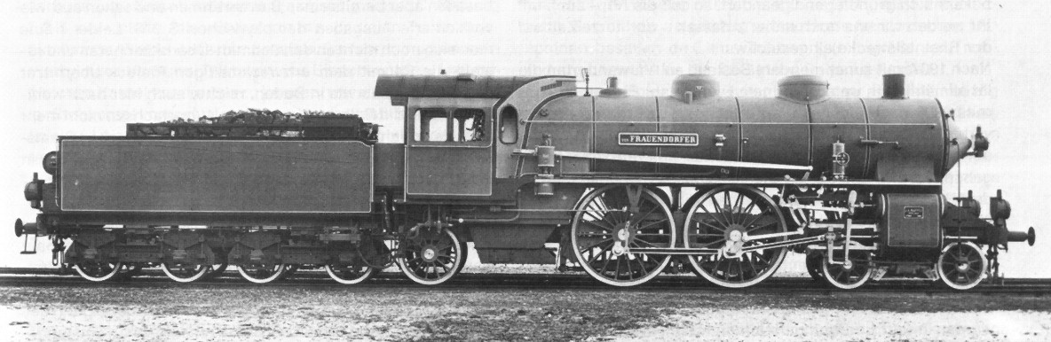 Steam locomotive Palatinatian P 4.